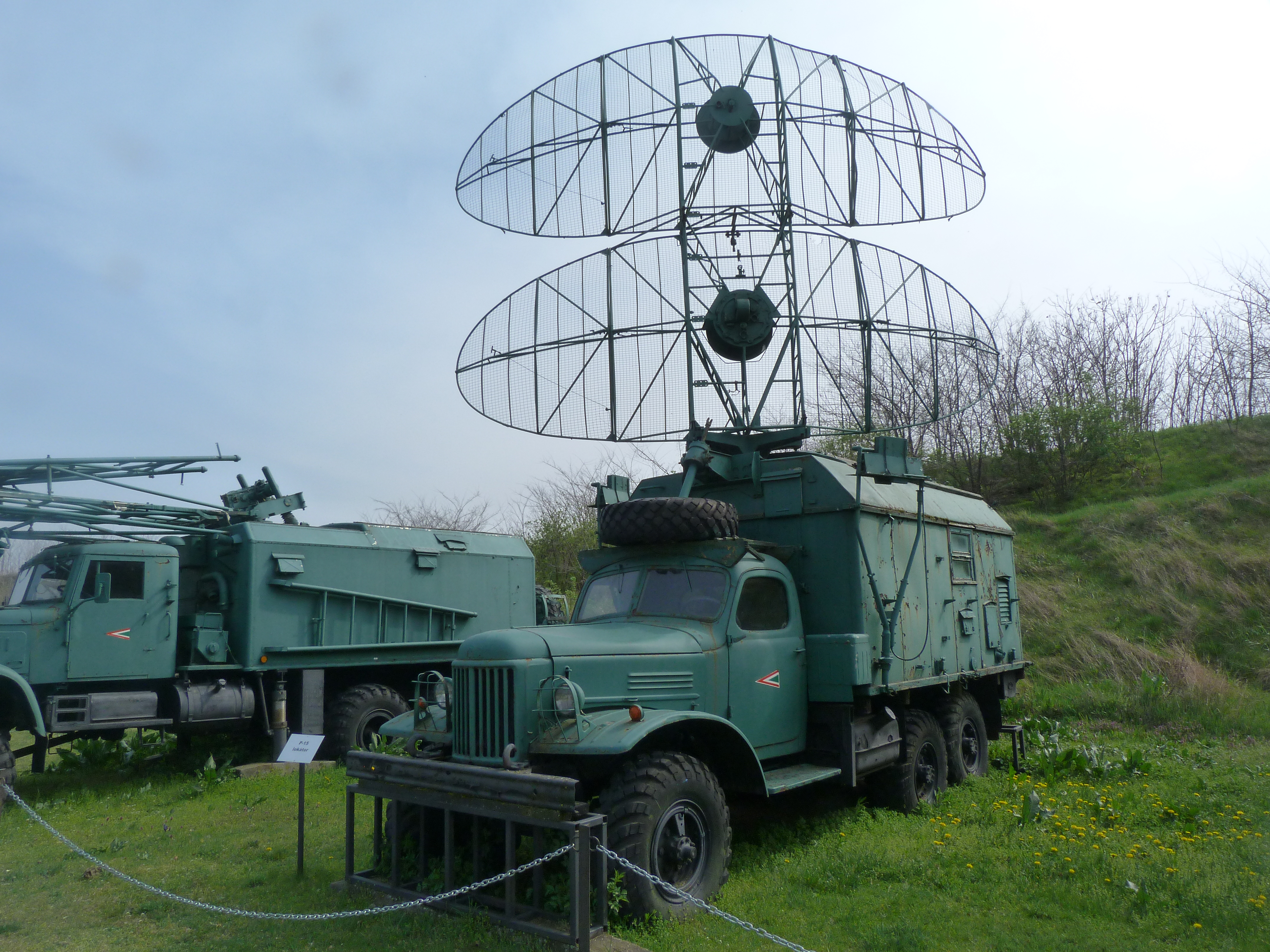 Live on the 31st of March, 2014. Komárom, Hungary. The Monostori Fortress. Open air exibition of the military equipement of the Hungarian People's Army. Photos of the parts and the fortress itself in the Metapolisz DVD line. ©© Derzsi Elekes Andor, Budapest, 2014, You are authorised to use these photos and vids under Creative Commons – even for commercial, for profit purposes. Photos must be attributed to Derzsi Elekes Andor. All of the photos and vids in the Metapolisz DVD line are under Creative Commons and can be used even for commercial – for profit – purposes. Recommended Citation Derzsi Elekes Andor: Metapolisz DVD line